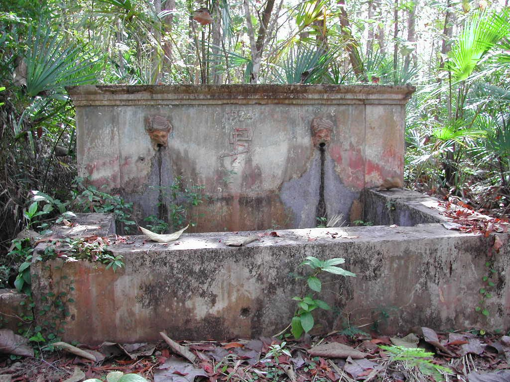 Portuguese era water feature (c. 1924) at a recent teak plantation, Lore, Lautem, Timor-Leste